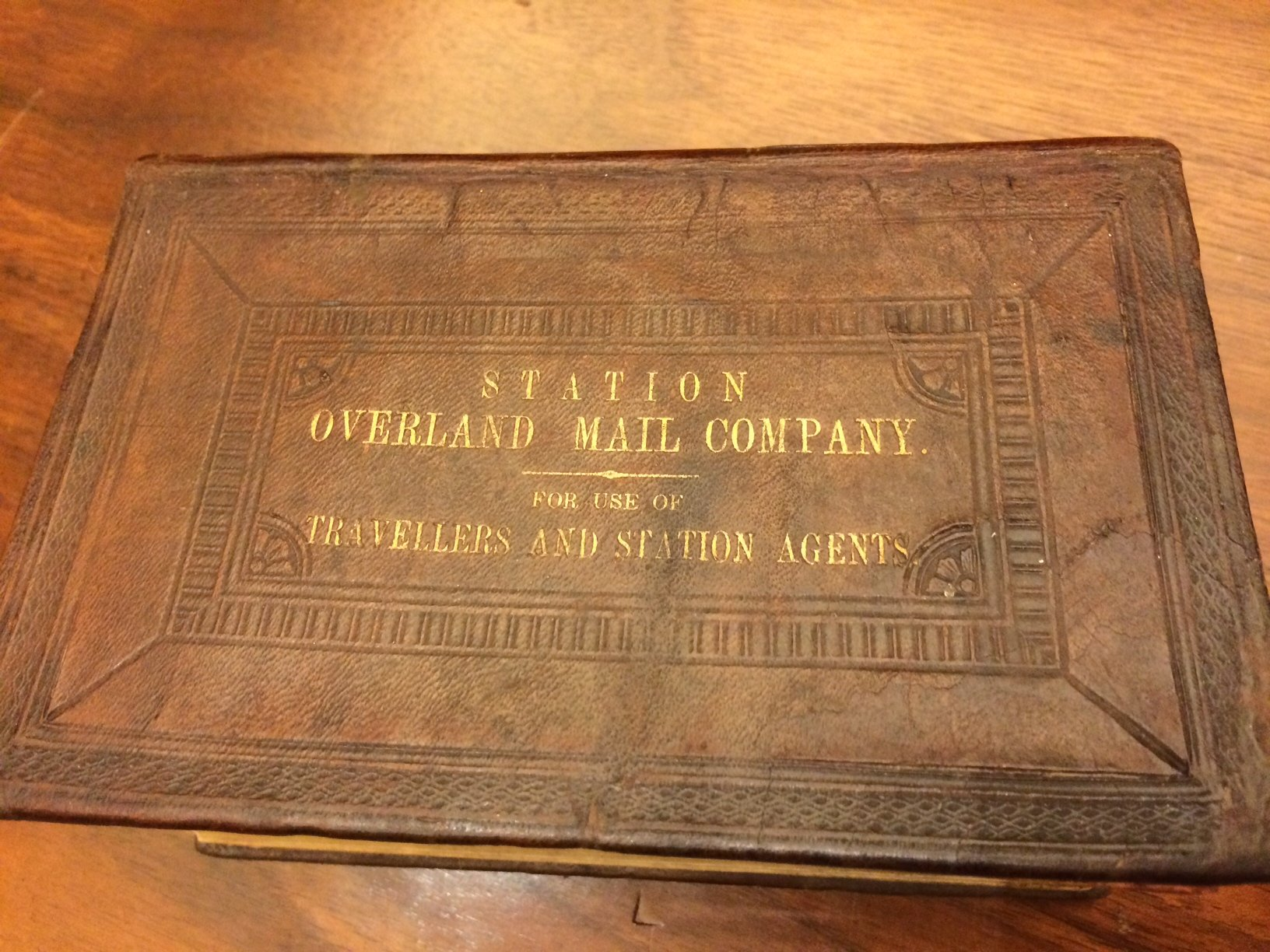 Butterfield Overland Mail Company bible